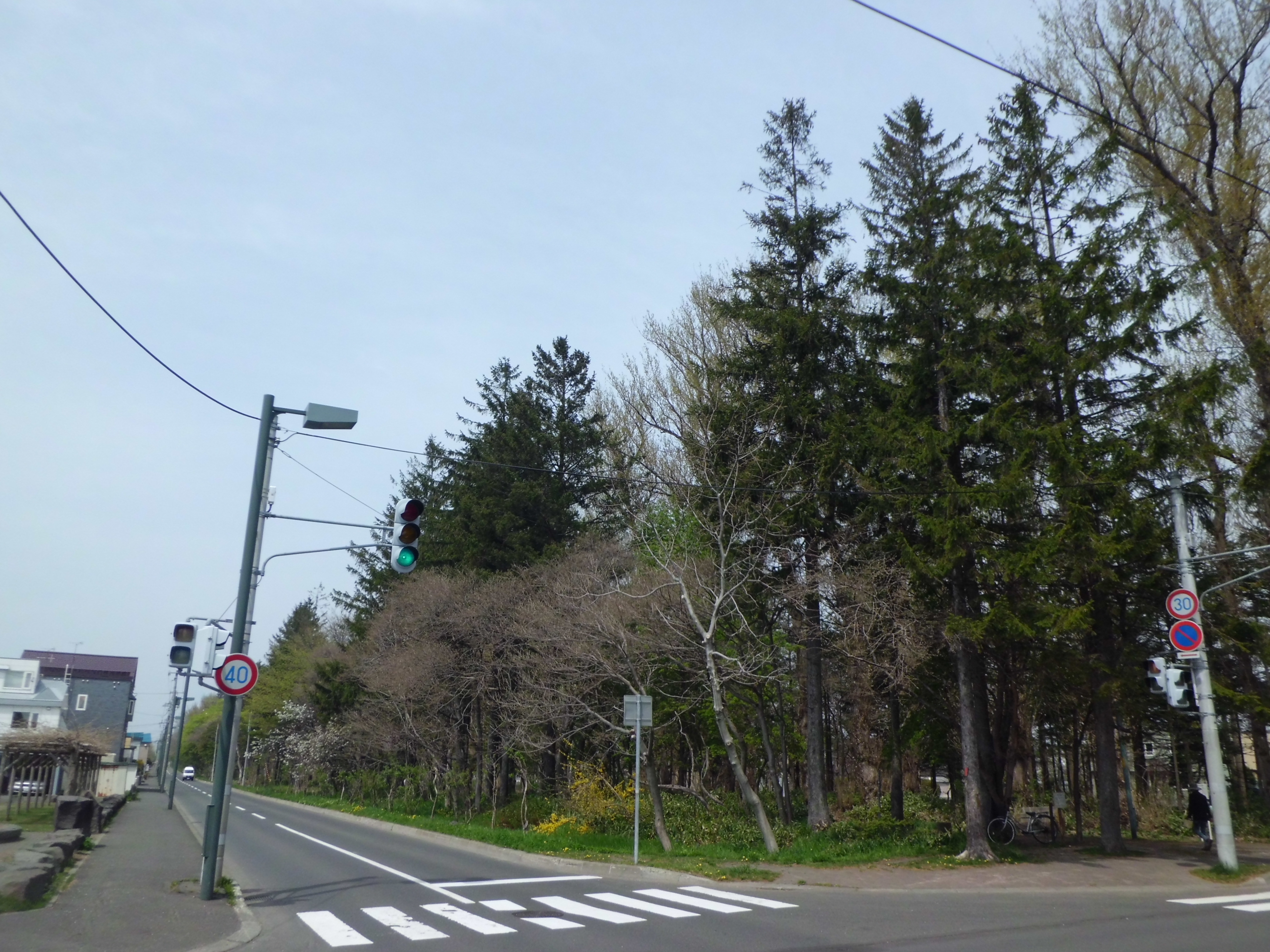 Tonden Windbrak in Kita-ku, Sapporo.